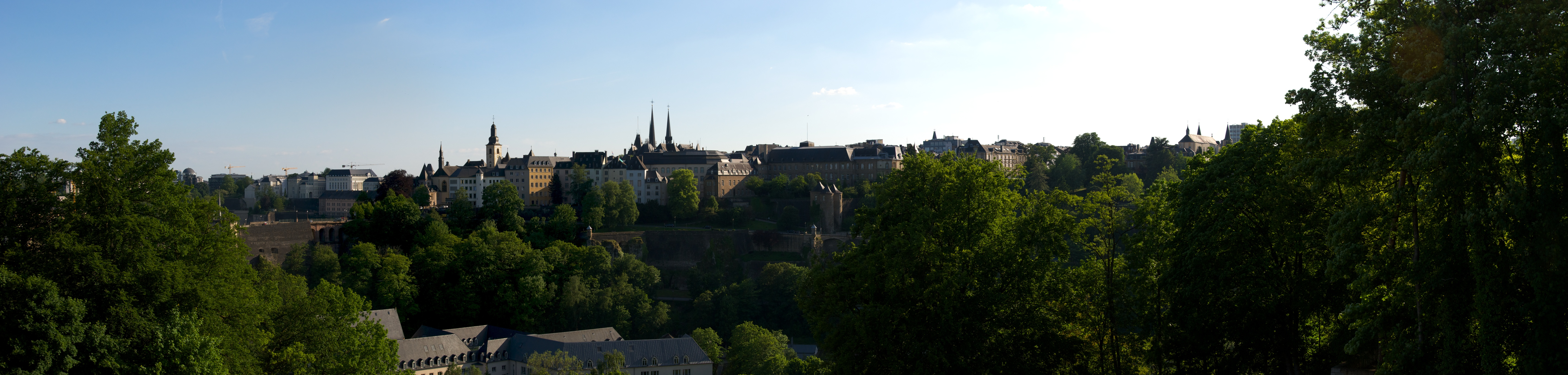 A panoramic photograph of Luxembourg City as seen from the other side of the valley at Kirchberg.